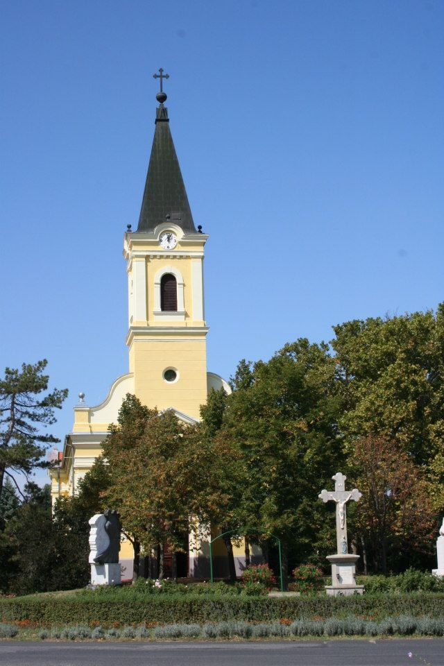 Balástyai templom